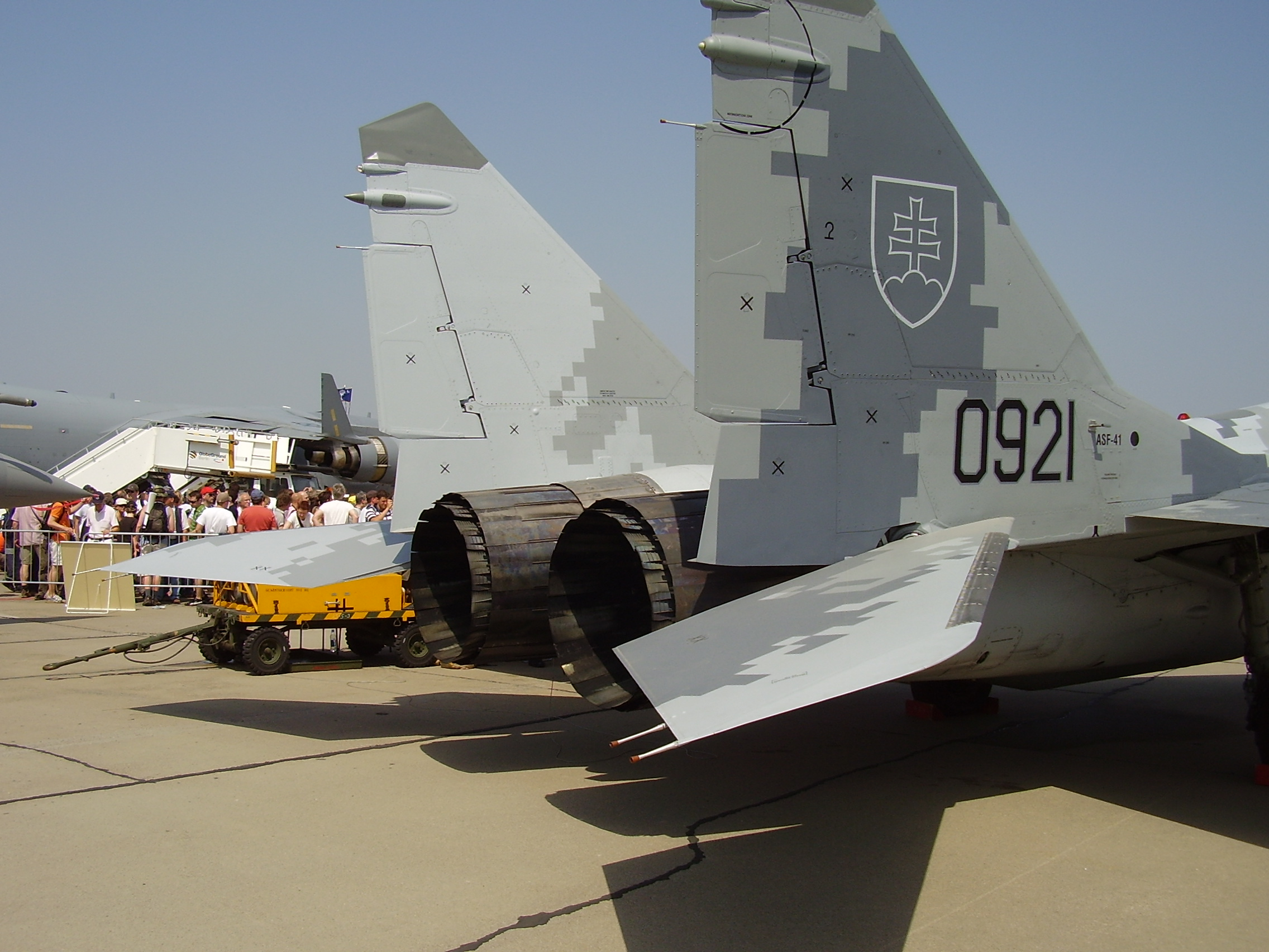 A Slovakian Mikoyan-Gurevich MiG-29 at the ILA 2008.